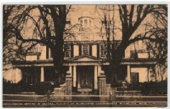 This is pic of the Mayflower Society HQ in Plymouth, Massachuestts from a 1915 postcard.